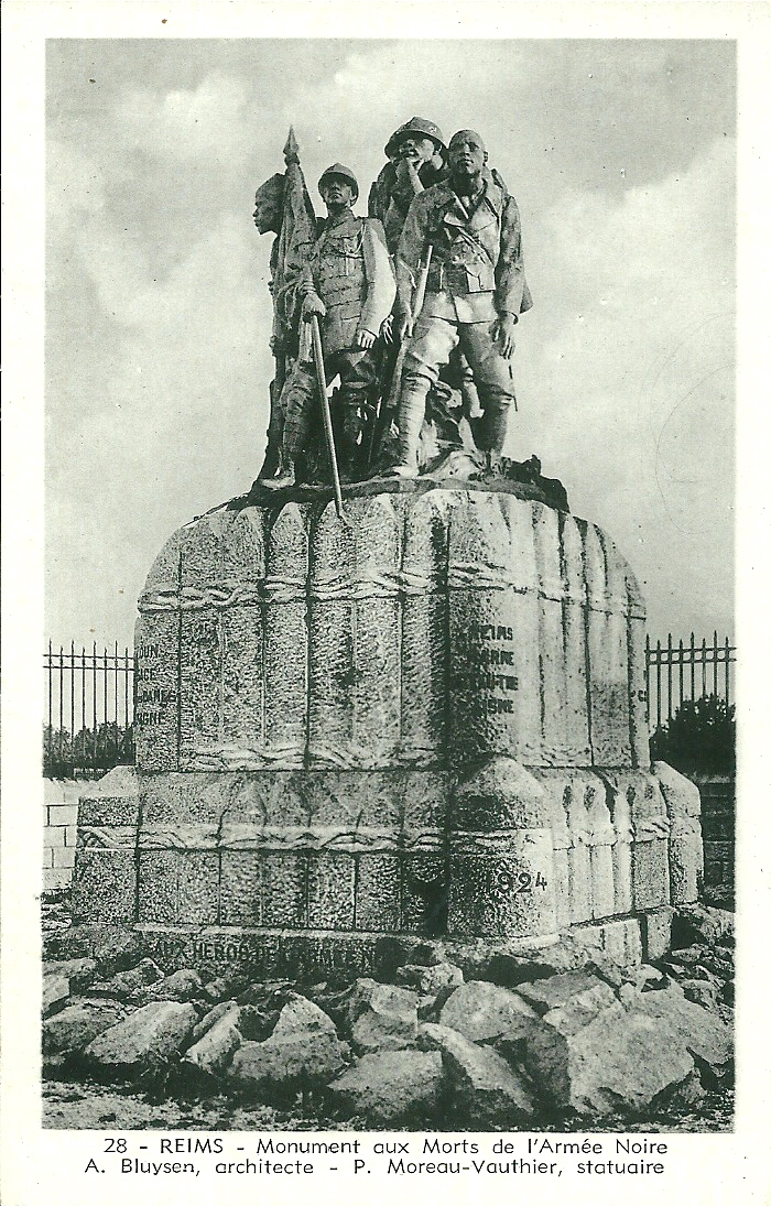 War Memorial of the "Black Army" composed of Senegalese soldiers serving in the French Army - Reims- A.Bluysen, architect & P. ​​Moreau-Vauthiers, statuary - The monument was erected in 1924 (inaugurated on July 13). It was destroyed by the German occupation in September 1940. Two monuments were originally created, the ther is in Bamako (place of freedom). A new monument was built in reims, but with a different design.